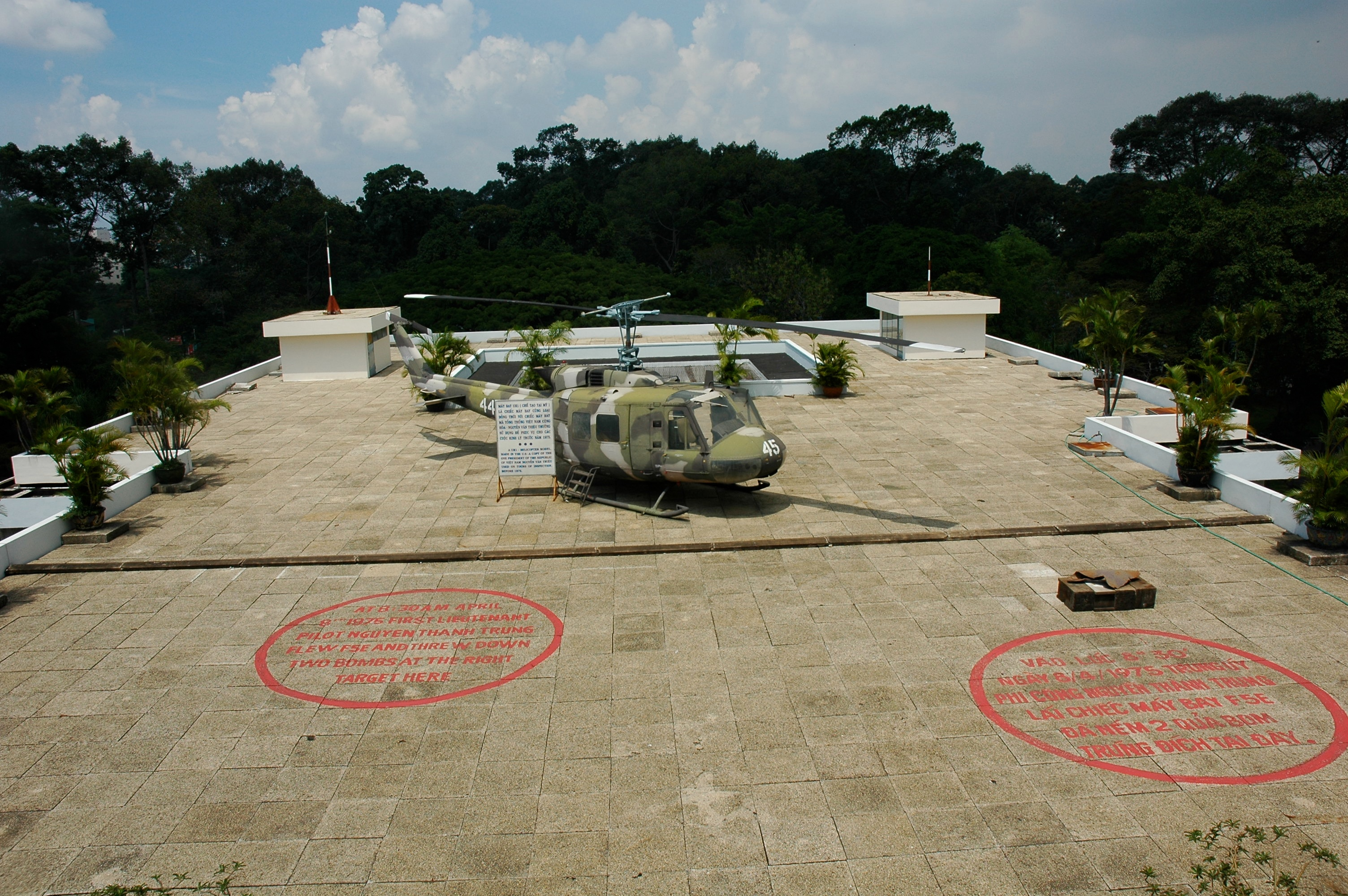 Roof of the Reunification Palace in Ho Chi Minh City, Vietnam. The right circle shows the location of the bombs from the aerial attack on April 8th, 1975.